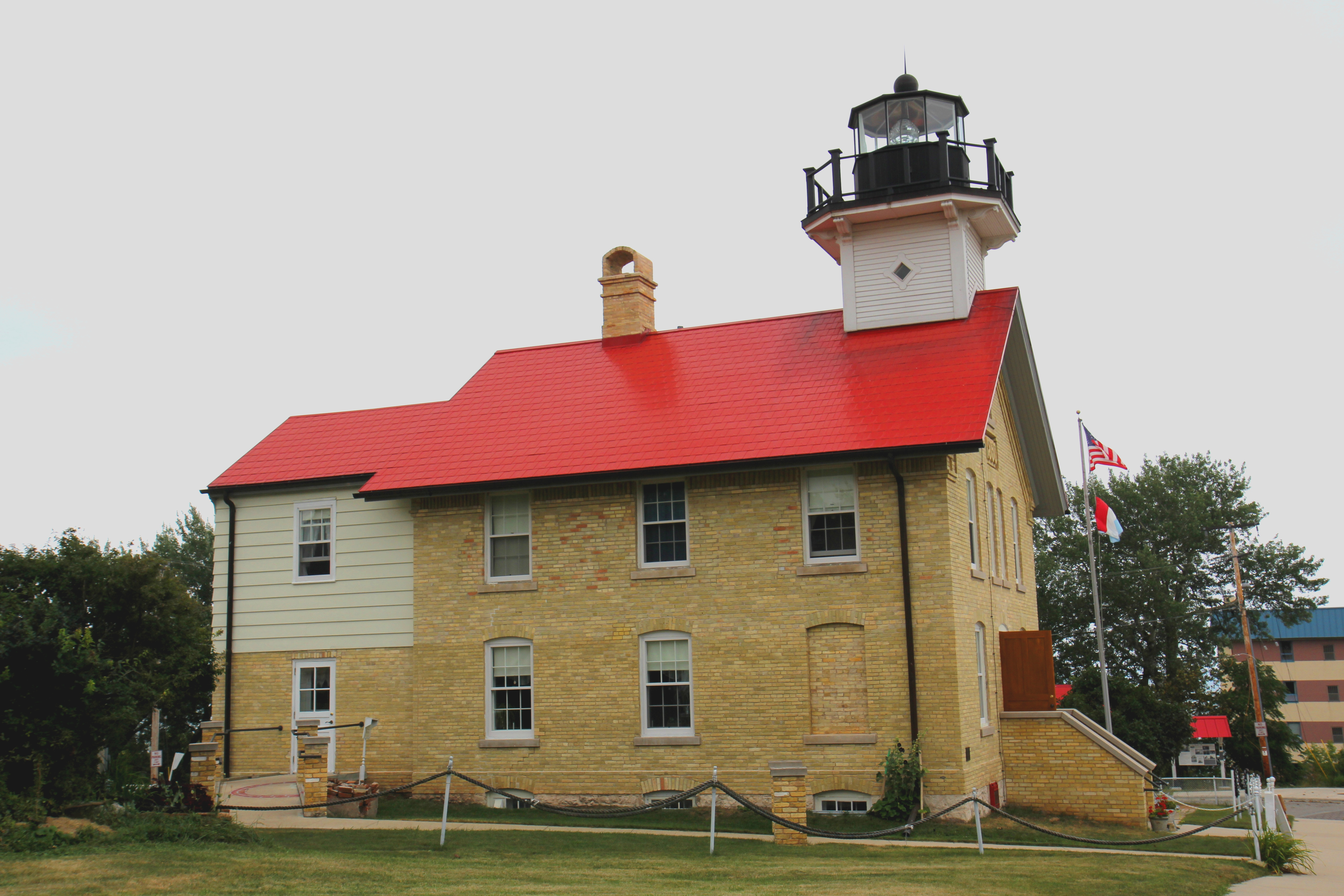 Side view of the Port Washington Light Station.